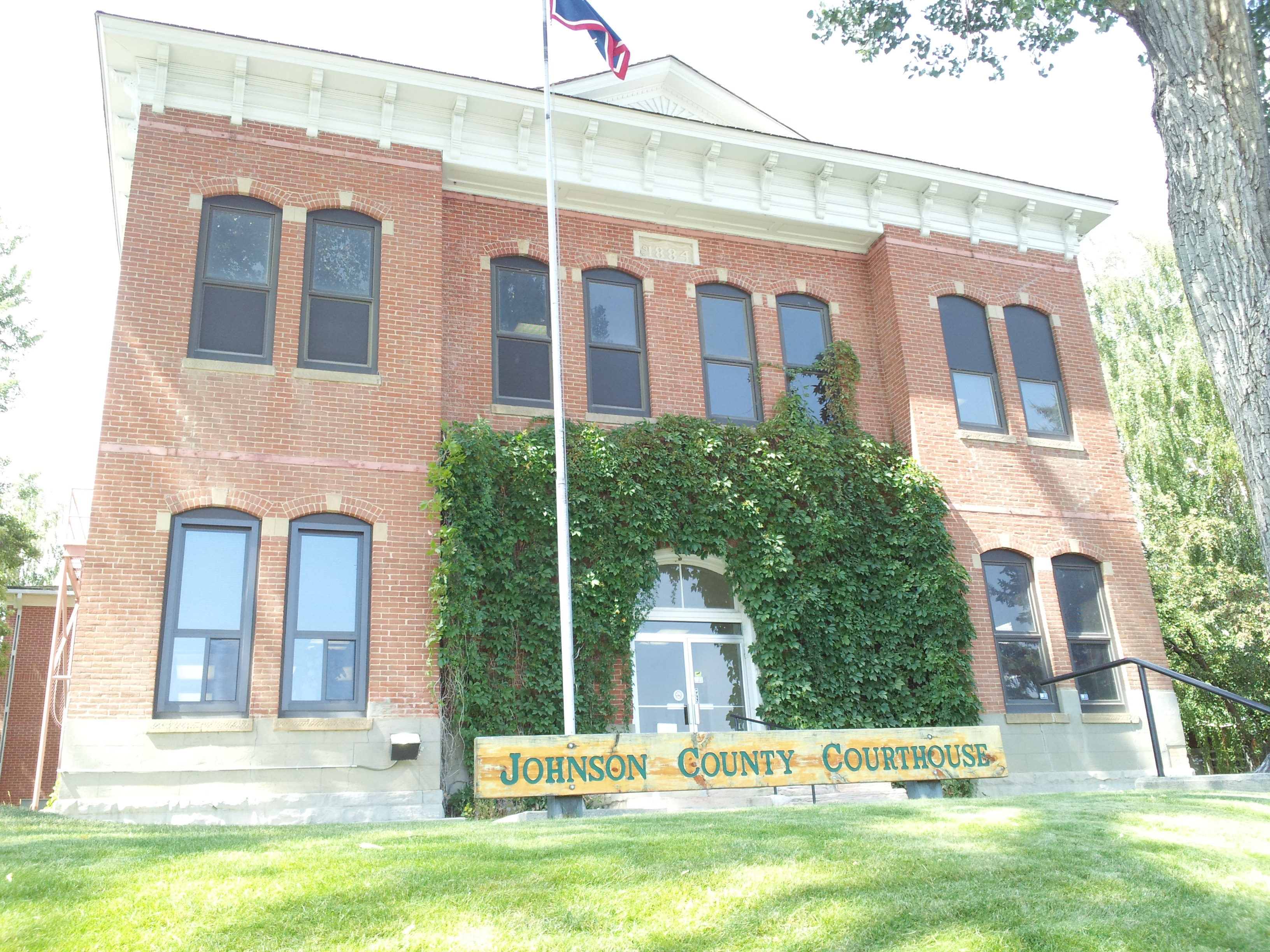 View of the Johnson County Courthouse on Main Street in Buffalo, Wyoming